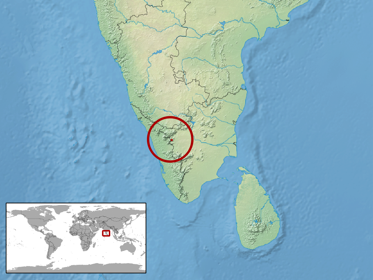 geographic distribution of Cnemaspis anaikattiensis (Native: India)